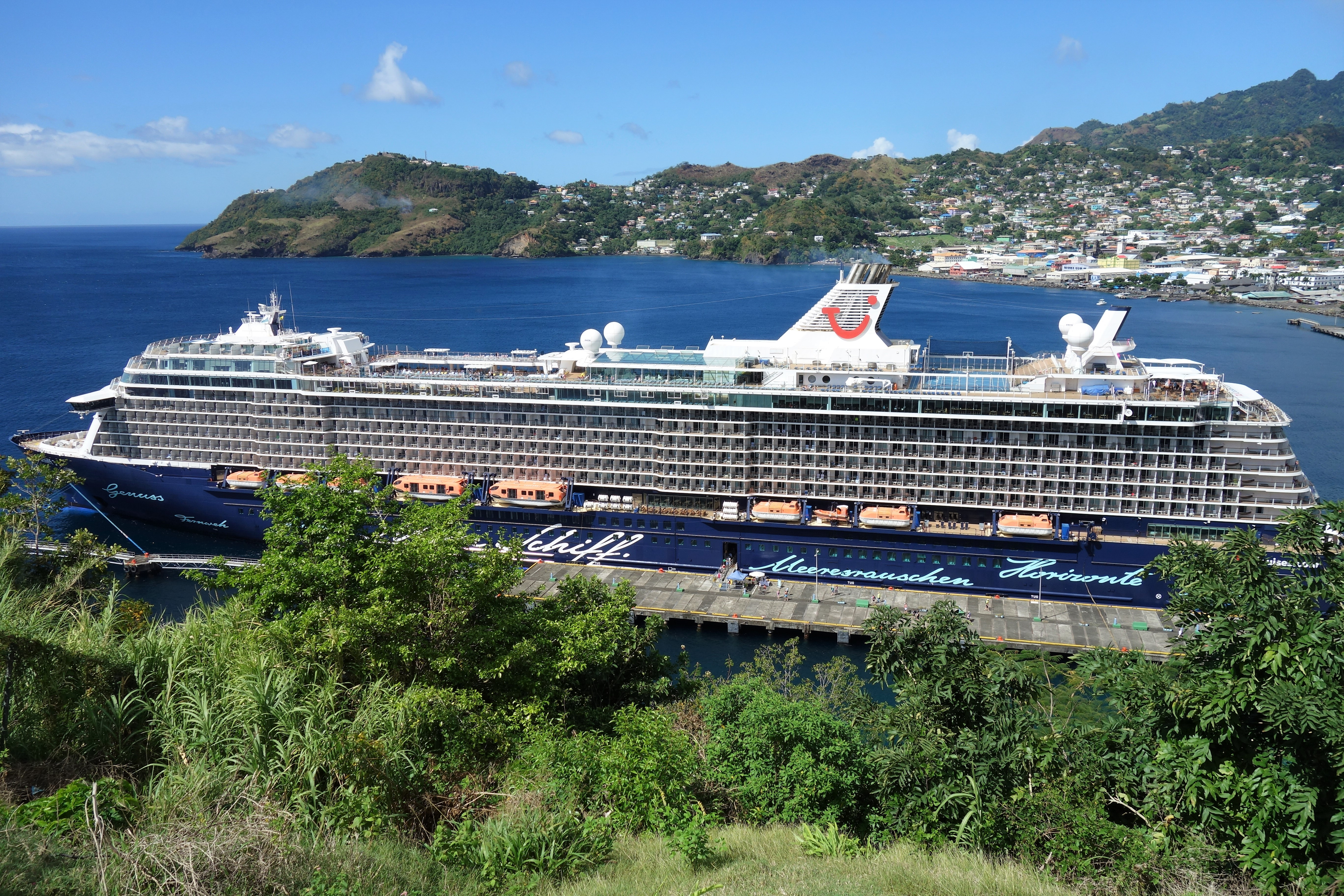 Mein Schiff 3 moored at SVG Cruise Ship Terminal in Kingstown